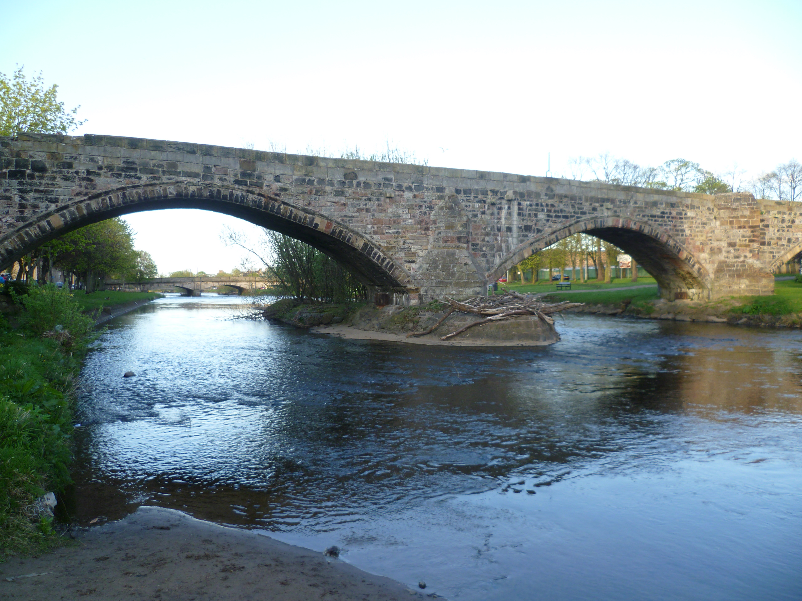 The Auld Brig dates from the 16th century, but is known locally as the 'Roman Bridge', because the Romans are known to have bridged the Esk at this spot. Many an English and Scottish army has crossed the bridge in its time. After the Battle of Pinkie in 1547, the routed Scottish army came under fire on the bridge from English ships at the mouth of the Esk and in 1745 Bonnie Prince Charlie's Jacobites crossed it on their way to and from the Battle of Prestonpans. This is the view looking northwards towards the river mouth.